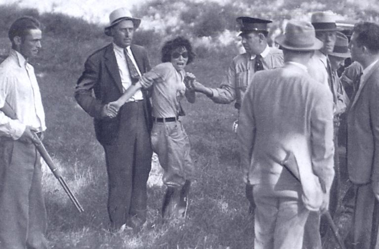 snapshot of capture of Blanche Barrow by unknown onlooker at Dexfield Park, July 24, 1933